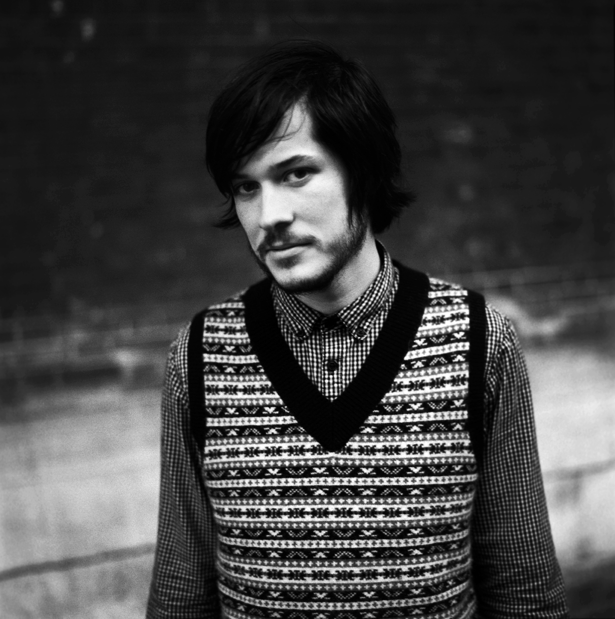 The Voluntary Butler Scheme_30_Pure Groove_25_08_09 Rob Jones steps up to the camera